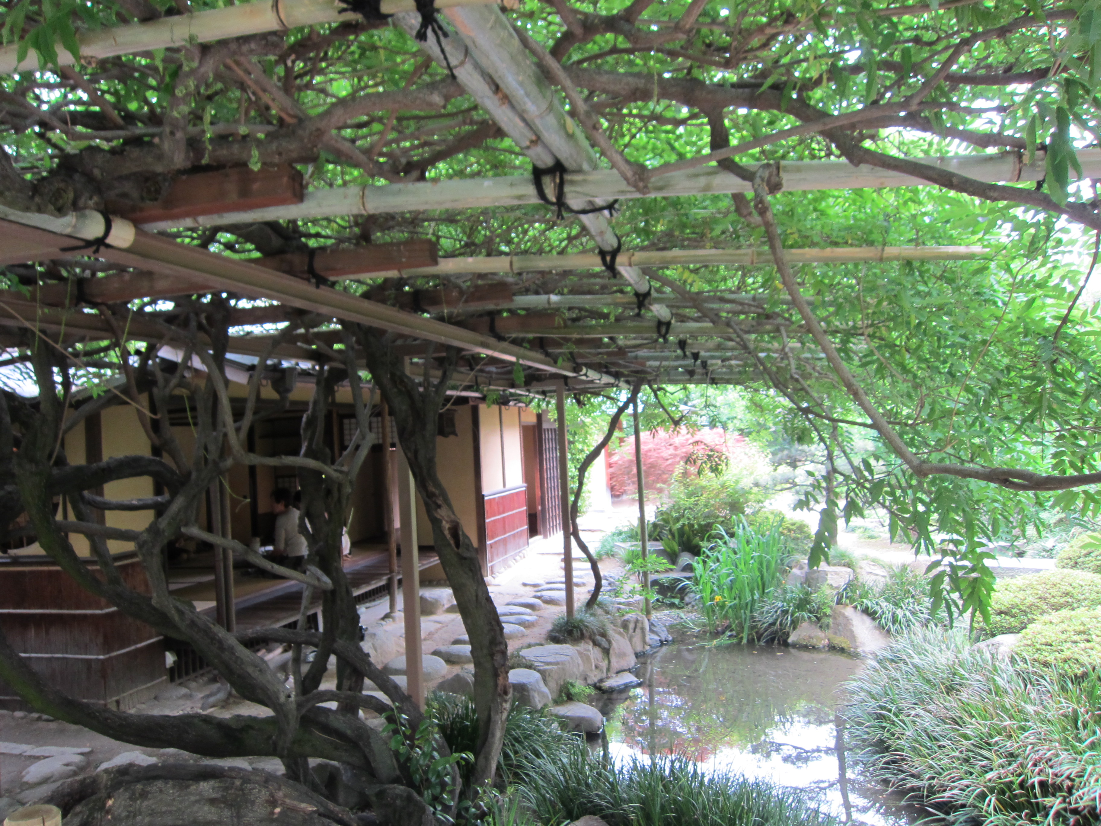 Koshin-an garden for wisteria in Matsuyama, Ehime, Japan